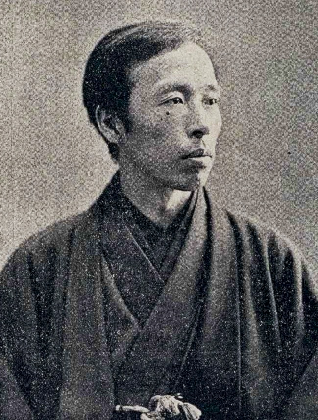 Takahashi Kenzō